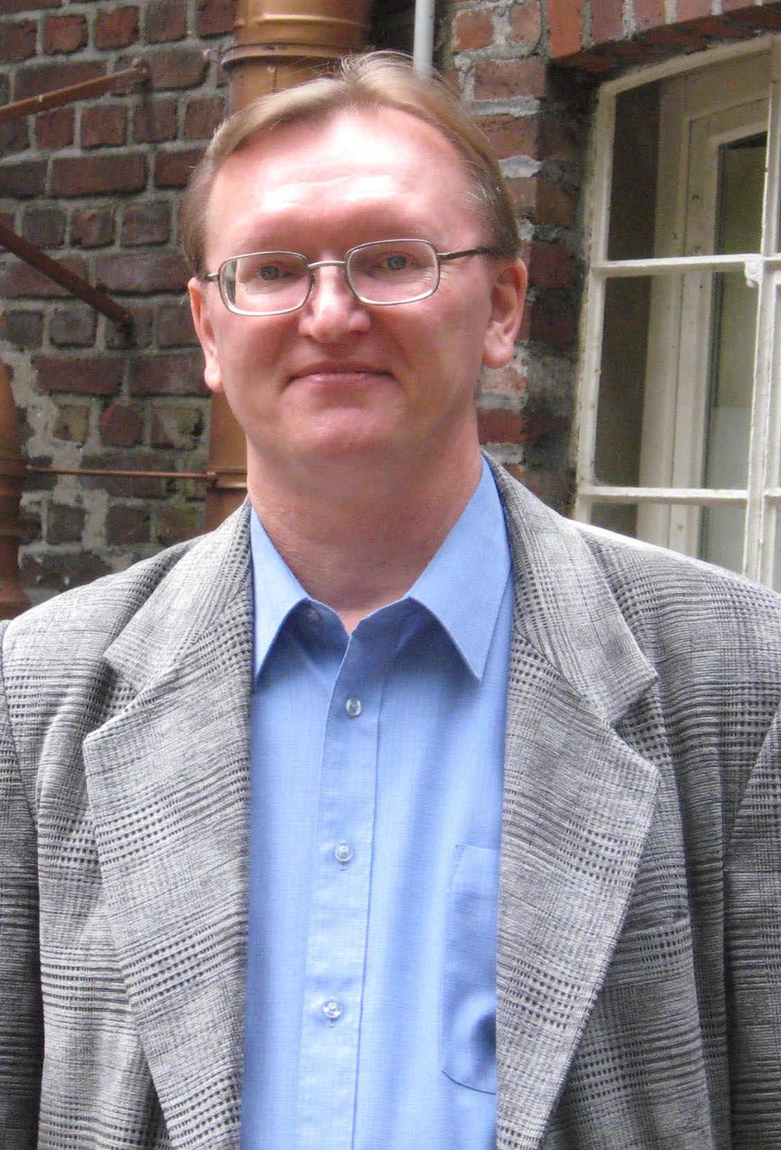 Oleg Korostelev - Russian literary historian, archivist, bibliographer, specialist in Russian abroad.